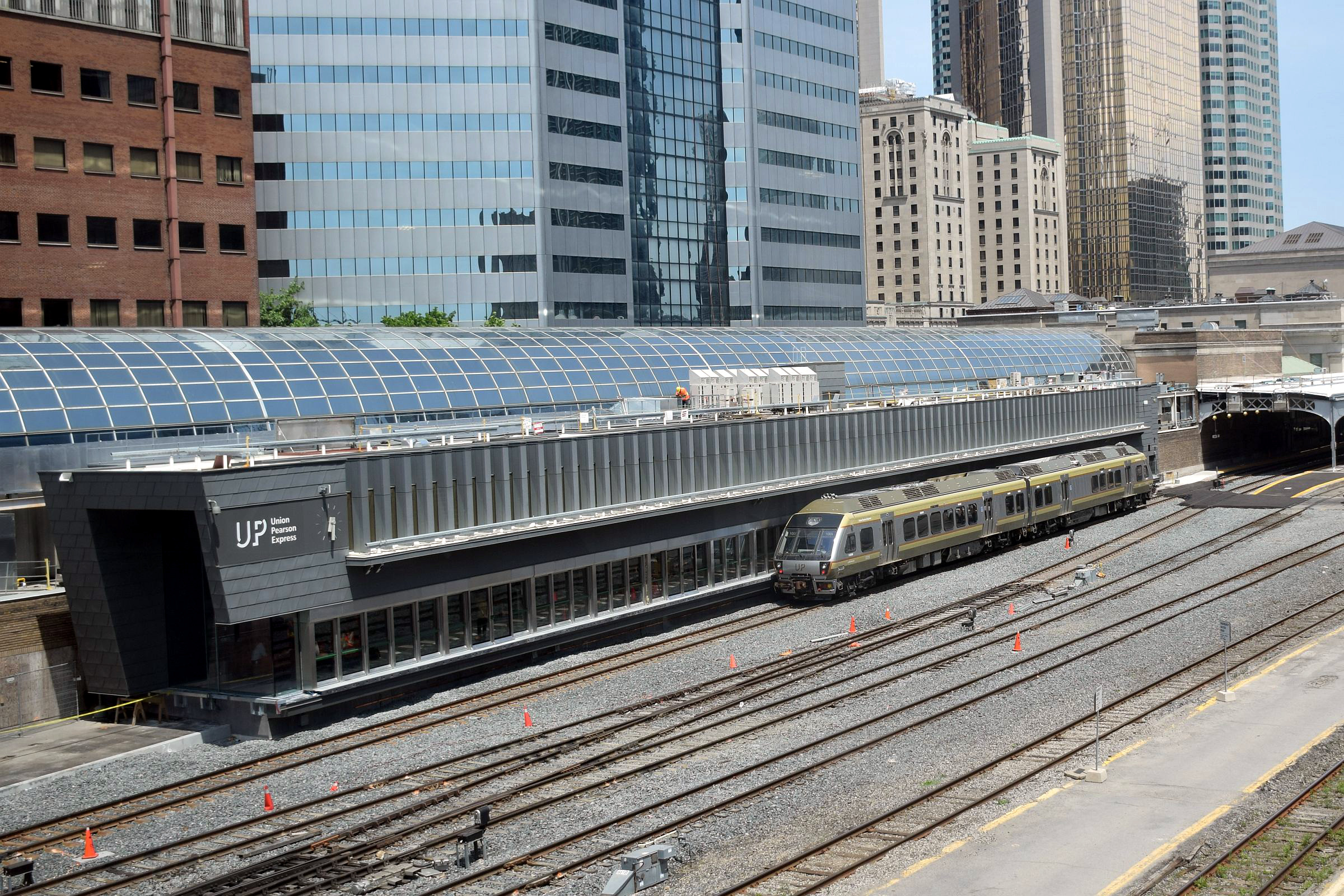 Union Pearson Express at Union Station in Toronto